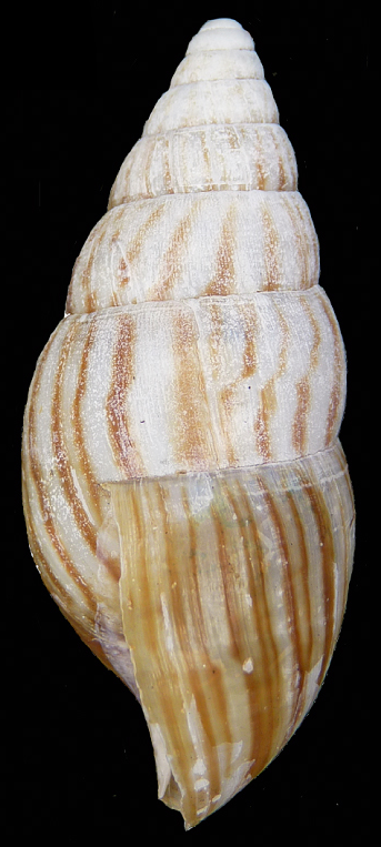 Photo of lateral view of the shell of Achatina vassei.